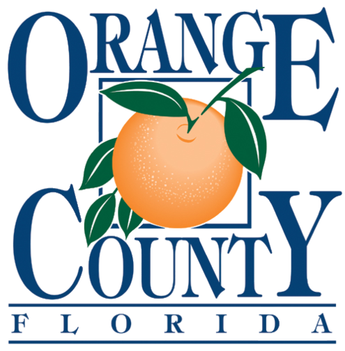 Official seal of Orange County, Florida.